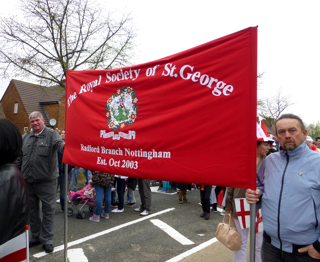 A Royal Society of St George banner at the Stone Cross St George's parade in 2014.